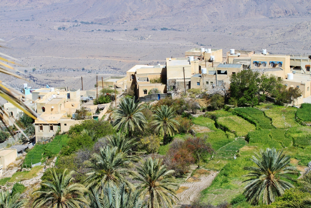 الزراعة في عمان2